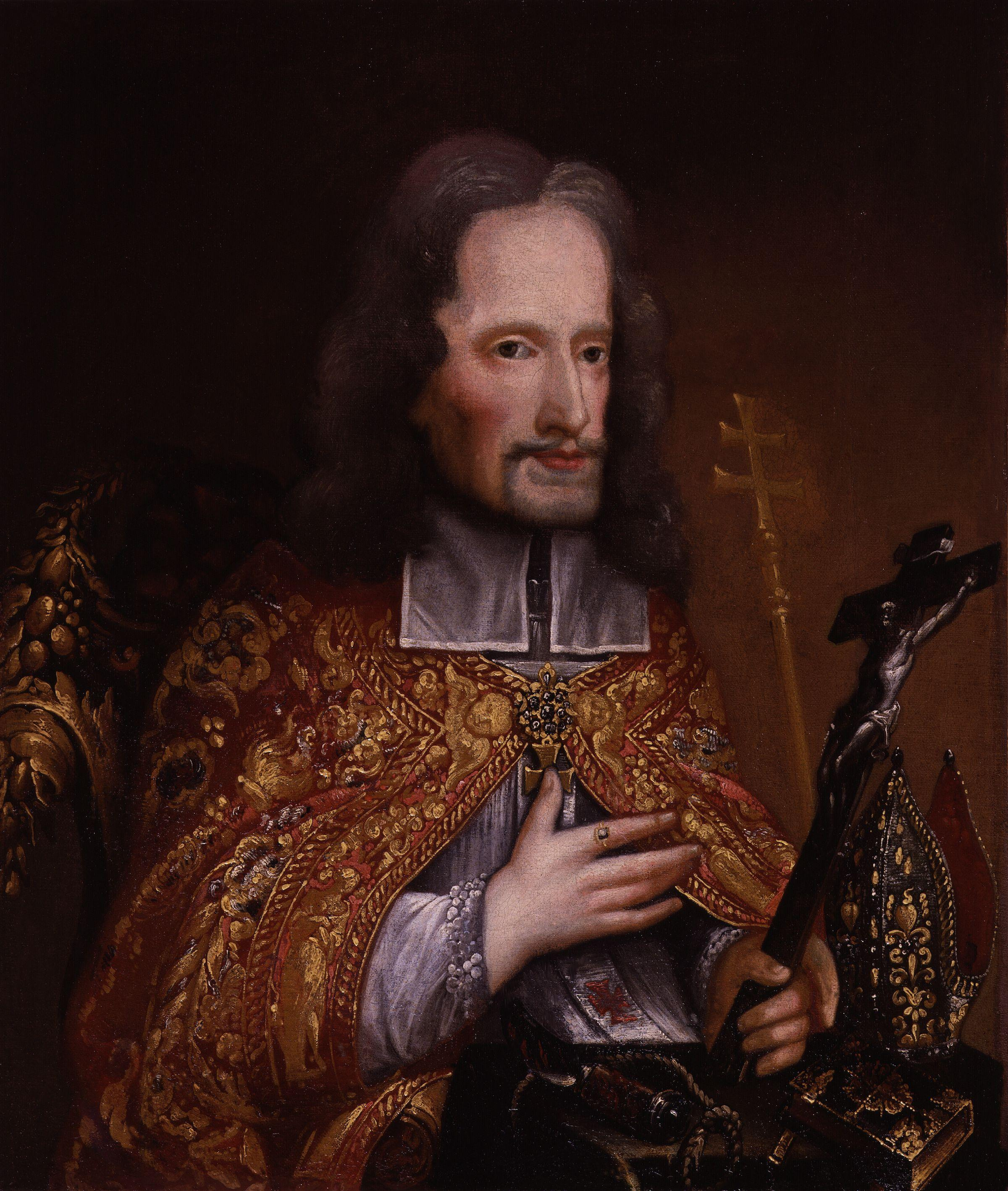 Oliver Plunket, by Edward Luttrell (died 1737). All images in this batch have been confirmed as author died before 1939 according to the official death date listed by the NPG.